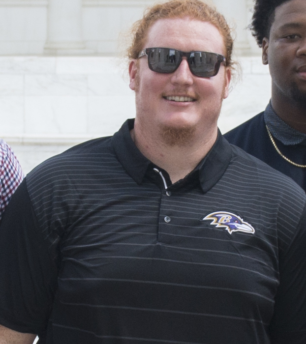 Players from the Baltimore Ravens at Arlington National Cemetery as part of the Army's and the NFL's community outreach program on August 21, 2017.